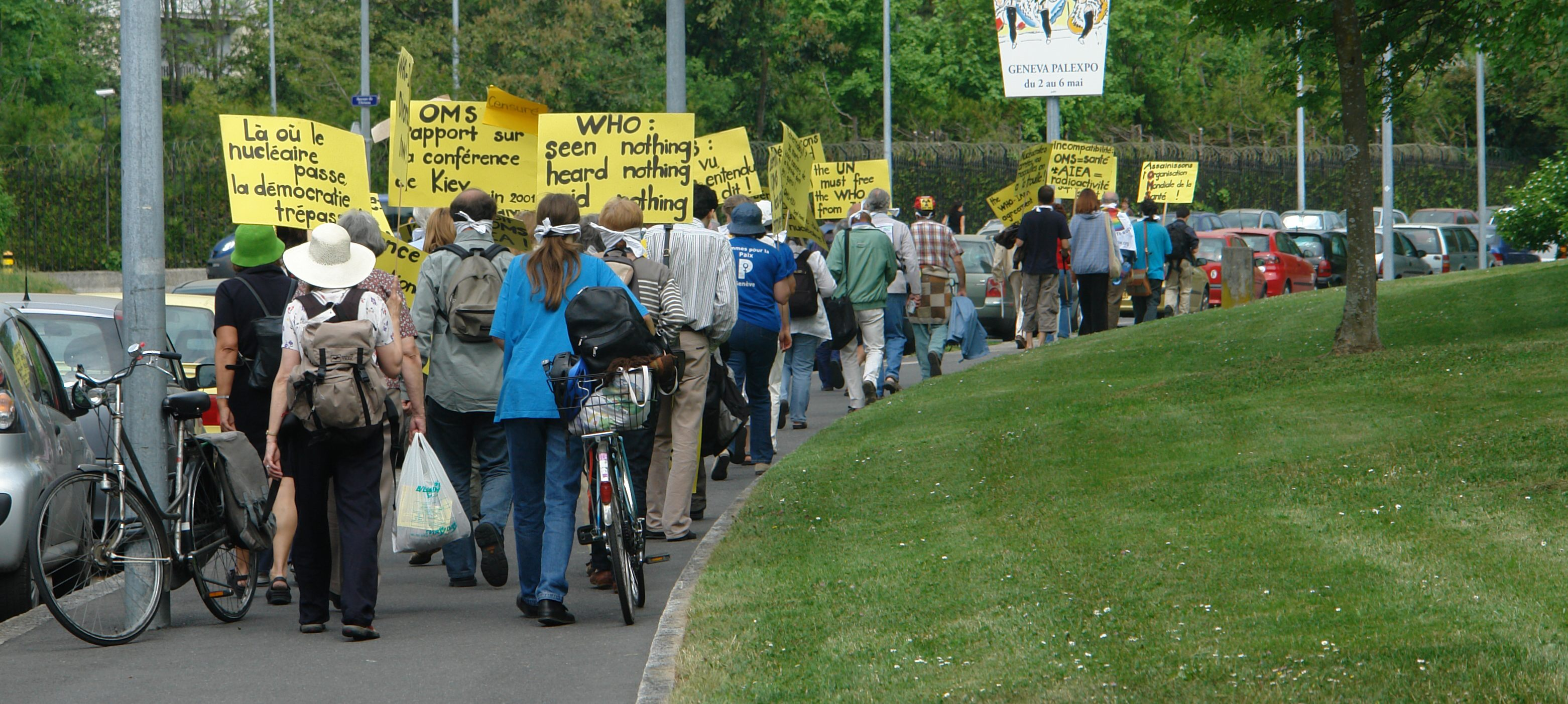 Demonstration on Chernobyl day near WHO in Geneva.